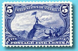 US stamp honoring John C. Fremont